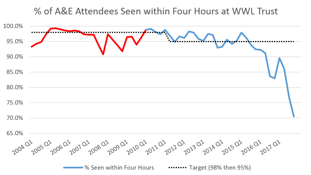 A chart that shows the percentage of A&E attendees who were seen within four hours at Wrightington, Wigan and Leigh NHS Foundation Trust.